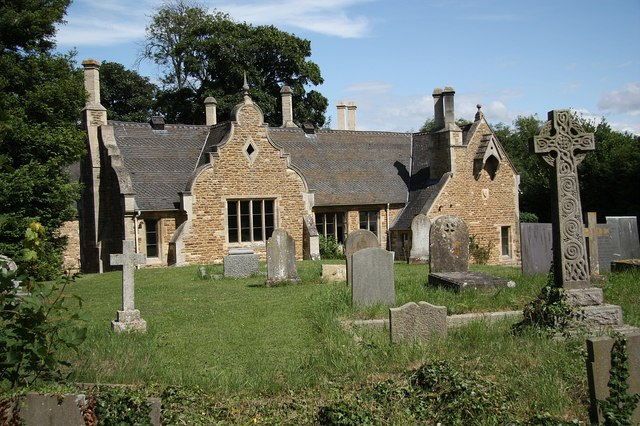 Hough on the Hill Schoolhouse Former School and Schoolhouse by All Saints' church at Hough on the Hill, with shaped gables dated 1867